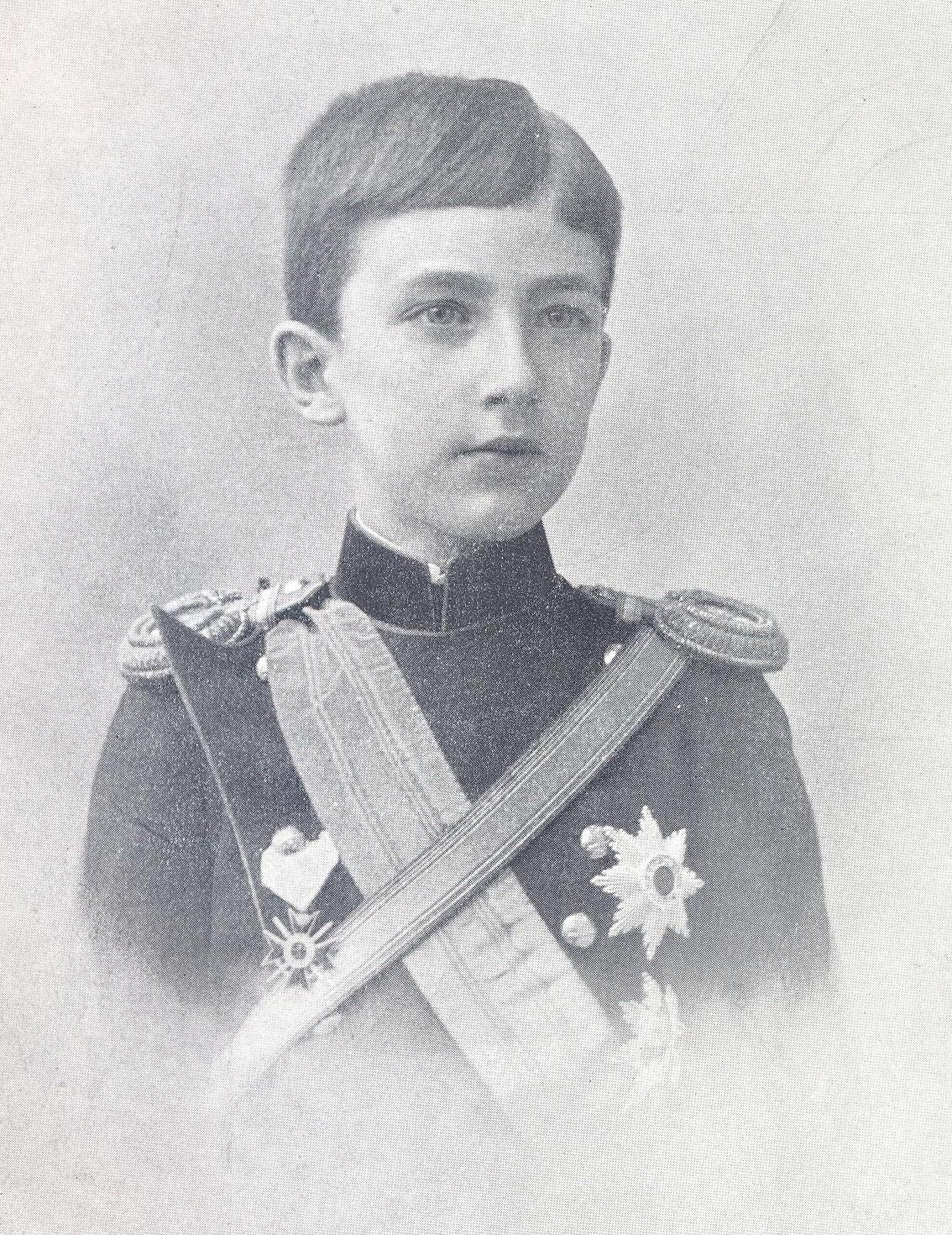 Boris III of Bulgaria